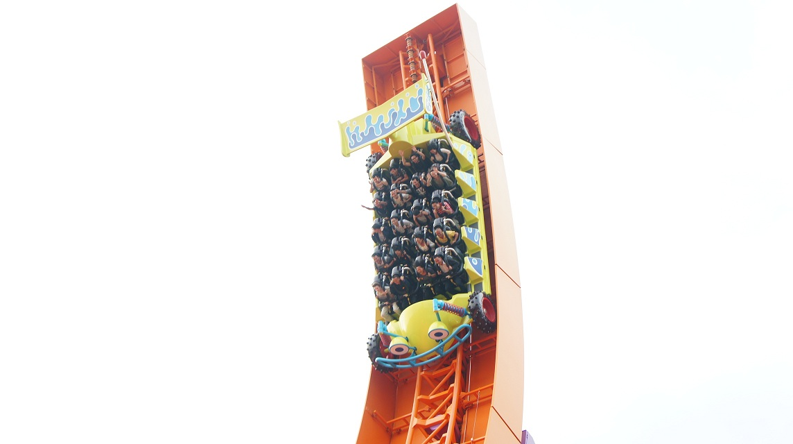 Rc Racer